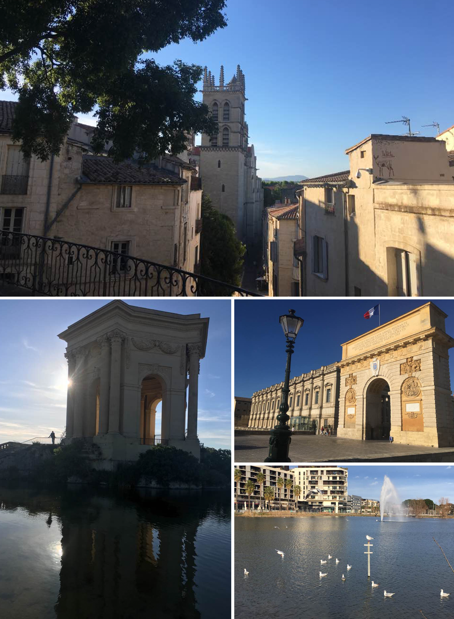 Photo montage of Montpellier—Clockwise from top: Saint-Pierre's Cathedral and Saint-Loup Peak; Triumphal Arch; Port Marianne's lake; Peyrou water castle.